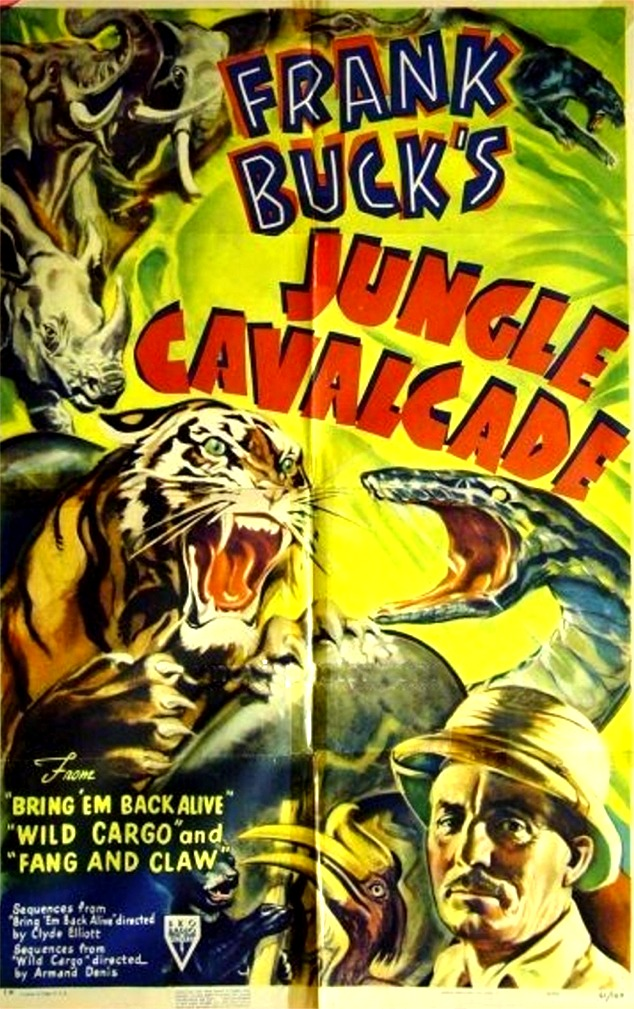 Fair use rationale in Frank Buck (animal collector) This image is being used to illustrate the article on Frank Buck (animal collector) and is used for informational or educational purposes only. This image is of low resolution. It is believed that this image will not devalue the ability of anyone to profit from the original work. The copyright on this image was never renewed, and it is now in the public domain. Source: personal collection Use Frank Buck (animal collector)